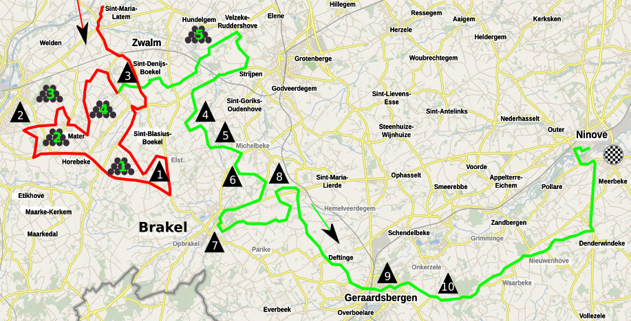 Circuit Het Nieuwsblad 2018, for women part 2 of the circuit.